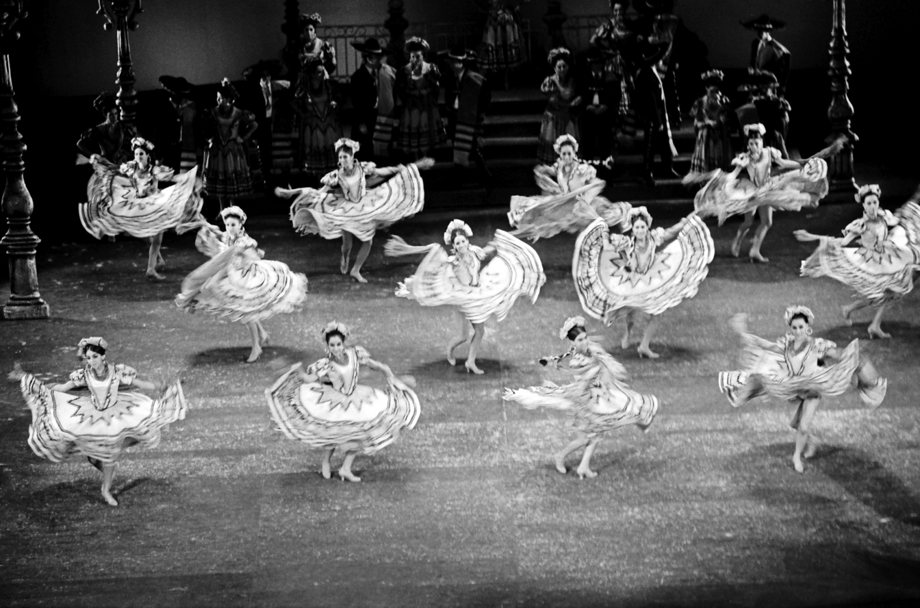 Ballet Folklórico de México, Mexico City, July 1970.